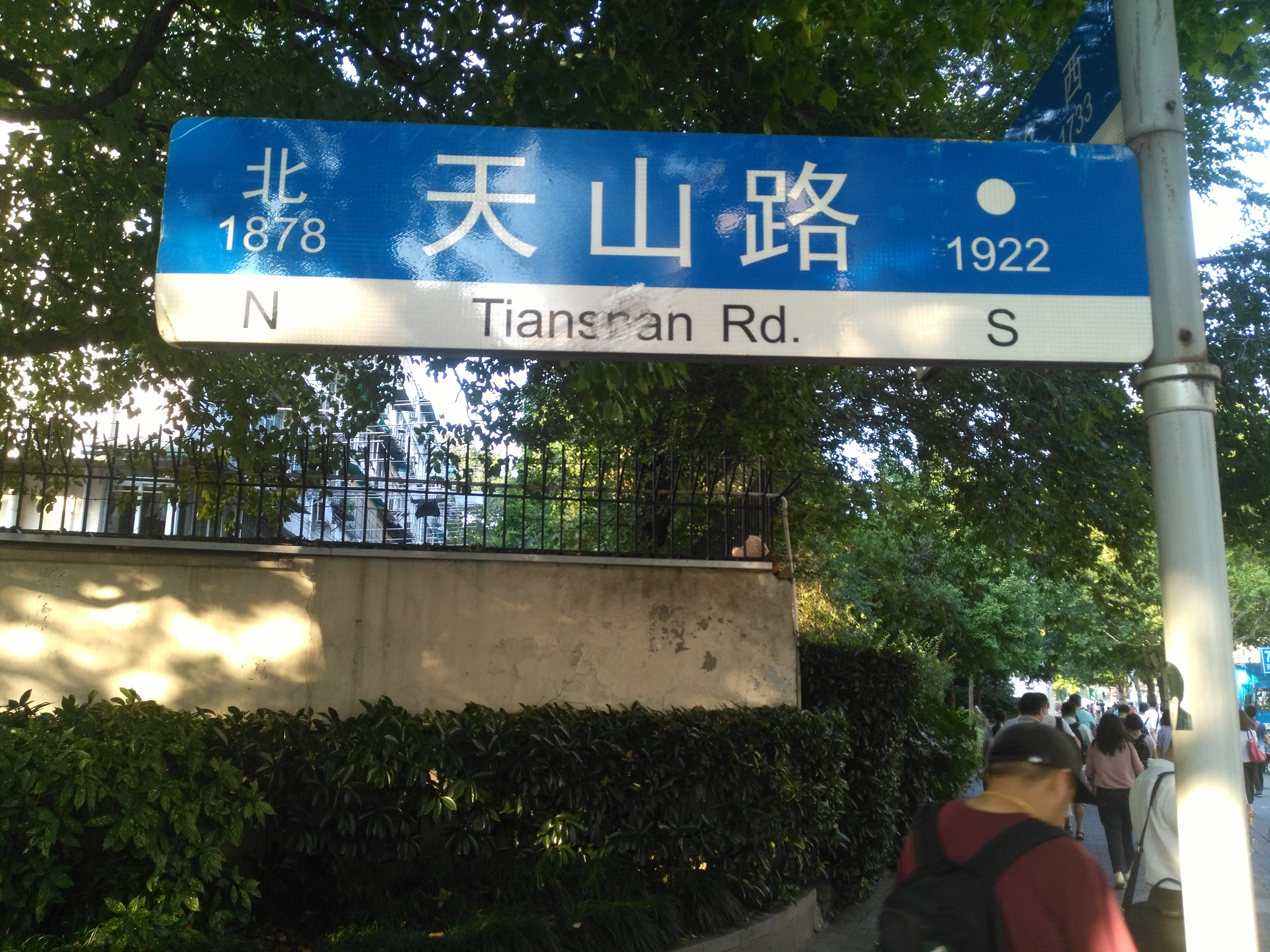 Road plate of Tianshan Road, Shanghai